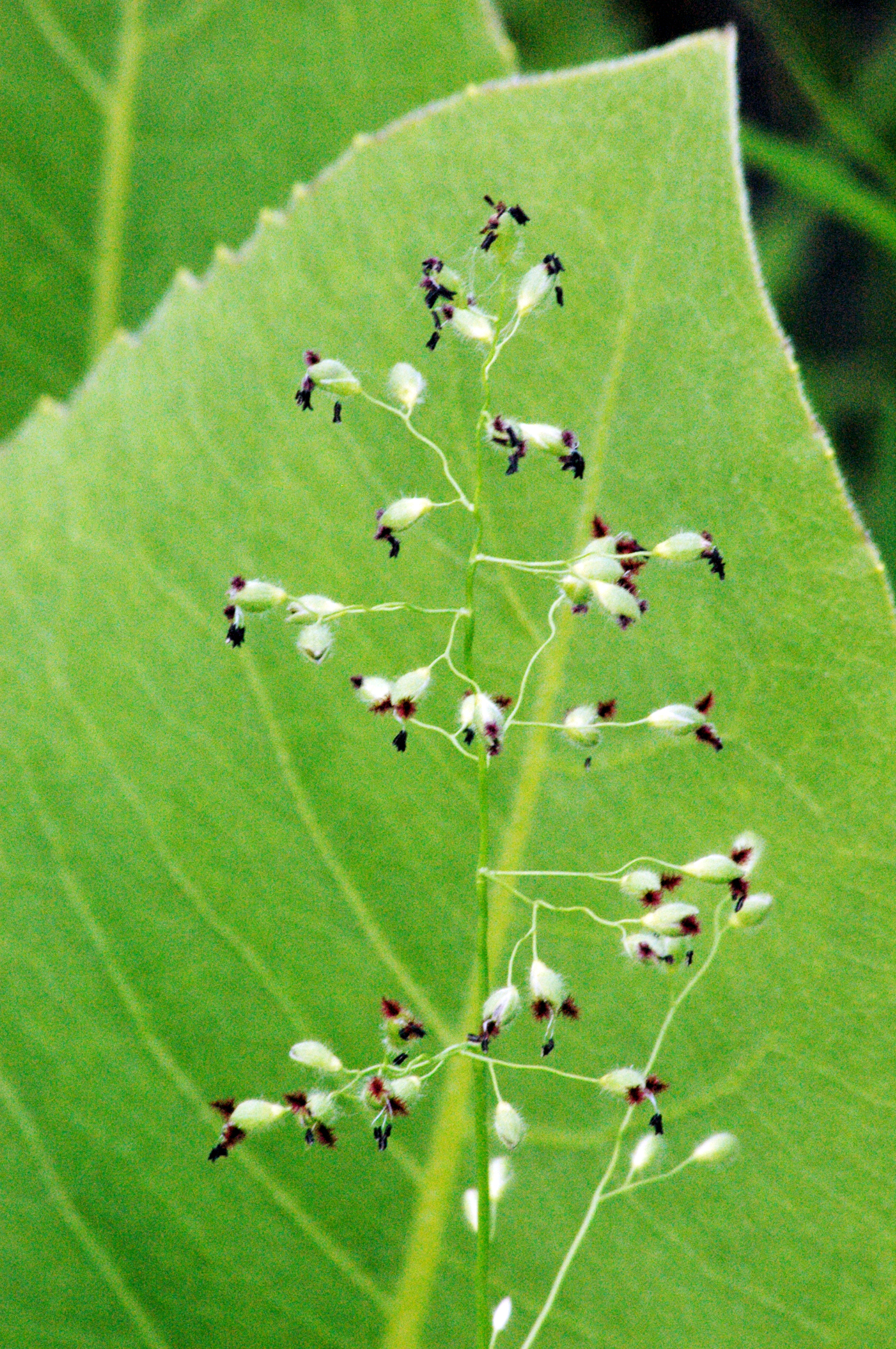 Dichanthelium leibergii syn. Panicum leibergii, James Woodworth Prairie Preserve, Glenview, IL, USA